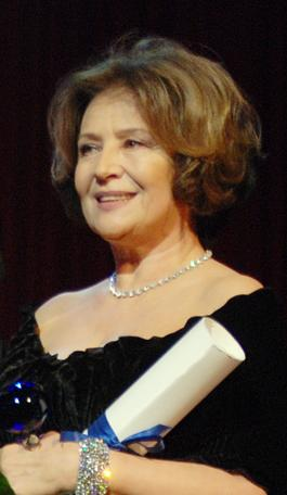 Emília Vášáryová accepting the Bratislavian Blueberry, an award in honor of Július Satinský, at the 2011 Bratislavský bál.